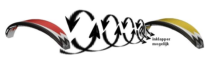 Lift-induced vortex behind a paraglider/paramotor wing